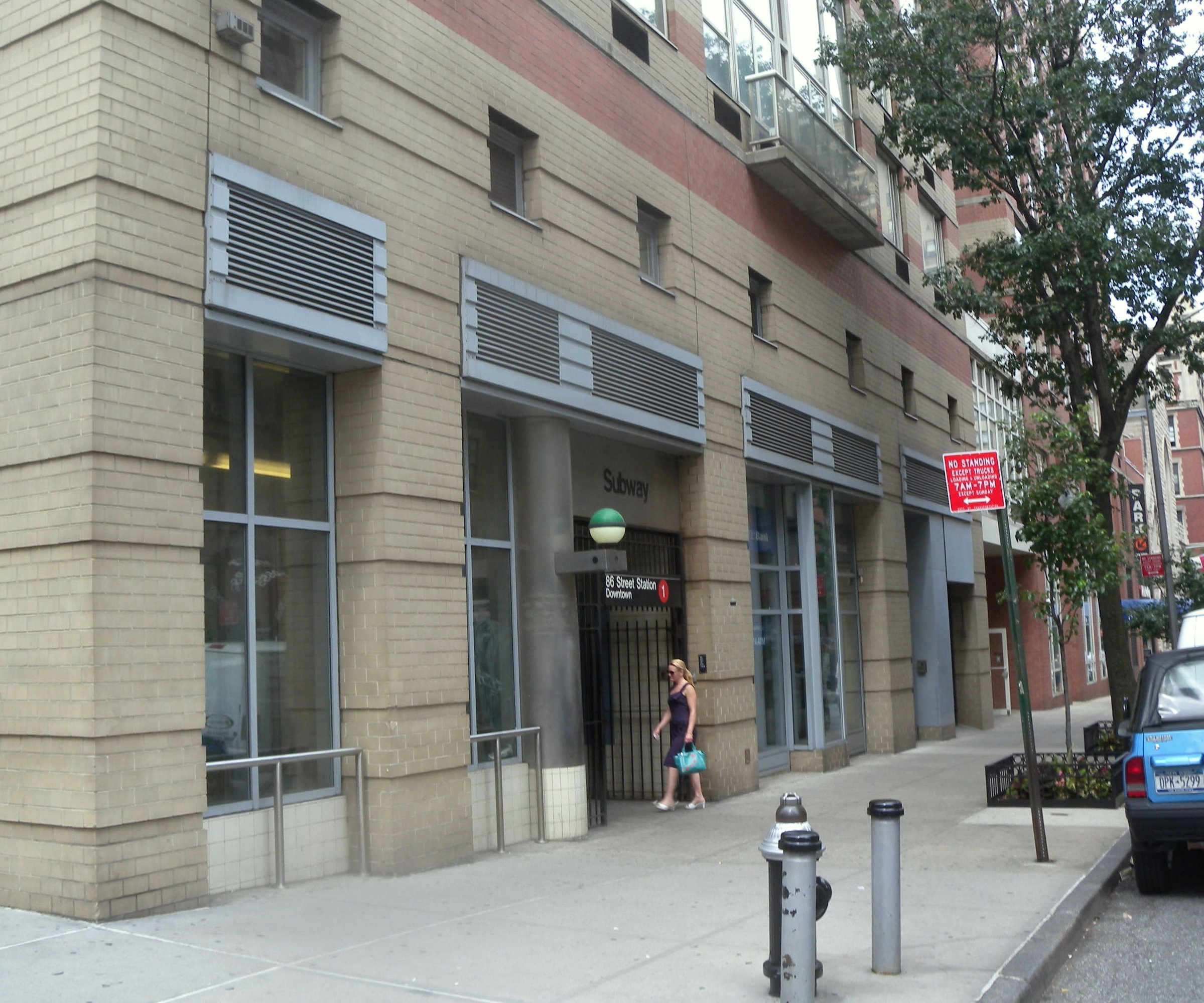 Looking west from Broadway at 87th Street entrance on a cloudy morning.